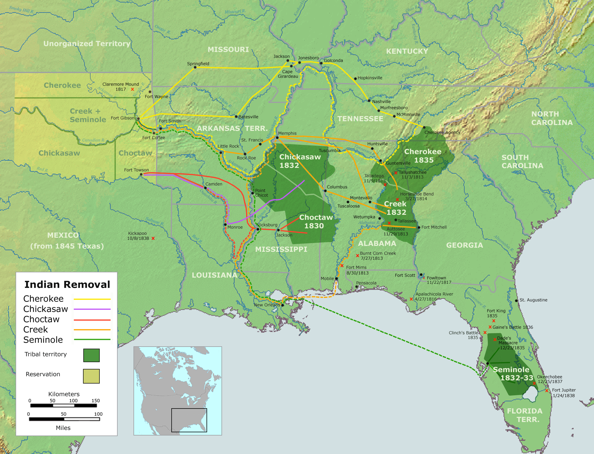 Map of the route of the Trails of Tears — depicting the route taken to relocate Native Americans from the Southeastern United States between 1836 and 1839. The forced march of Cherokee removal from the Southeastern United States for forced relocation to the Indian Territory (present day Oklahoma). (English version)